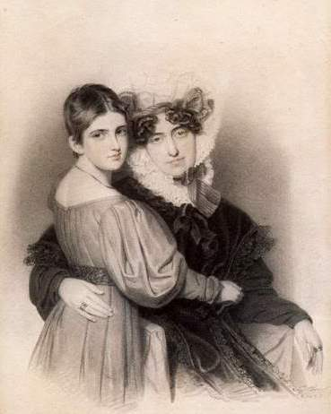 Maria Christina Albertina of Saxony, princess of Savoy-Carignan, and her daughter Augusta